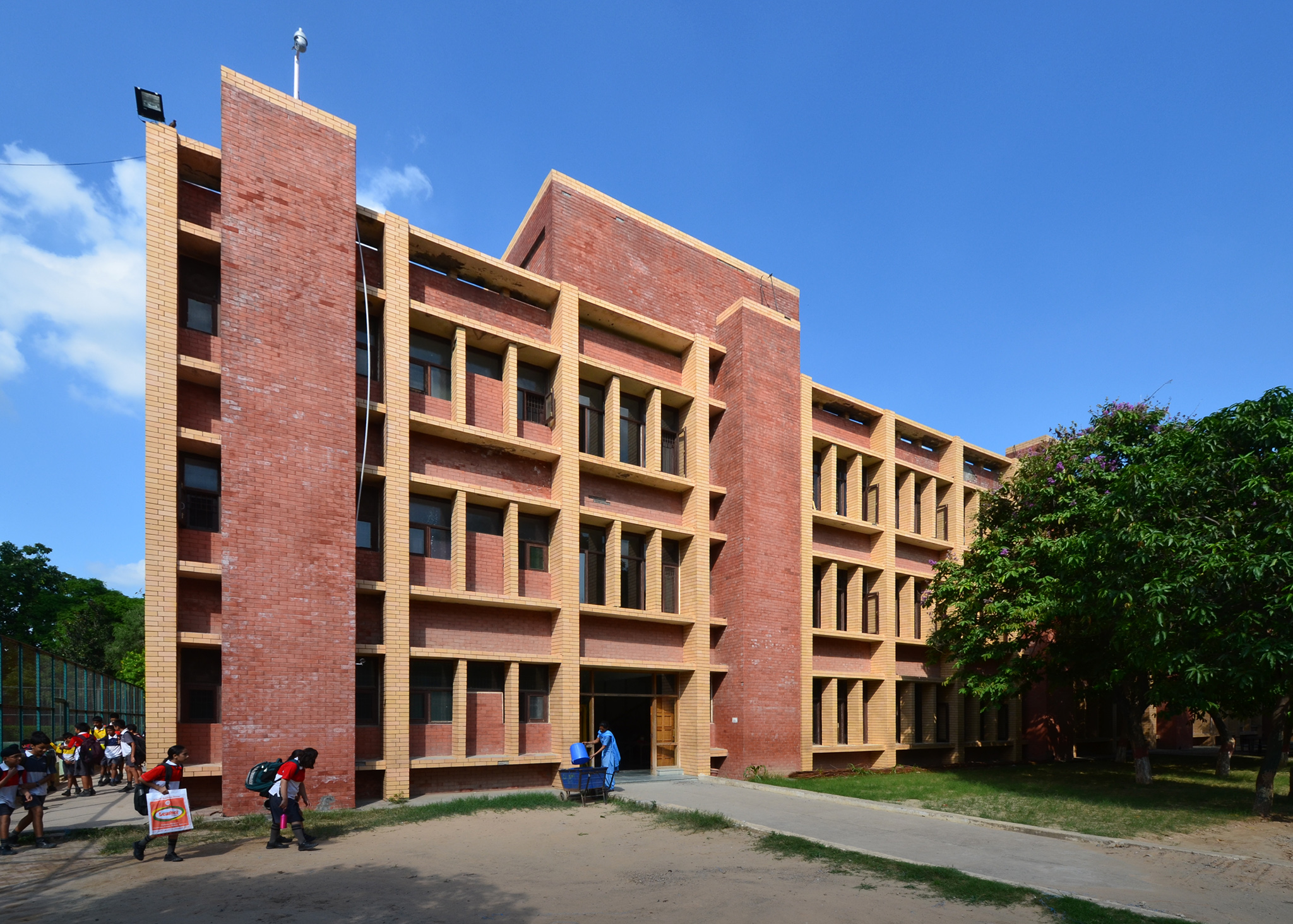 Junior Wing of Yadavindra Public School, Mohali